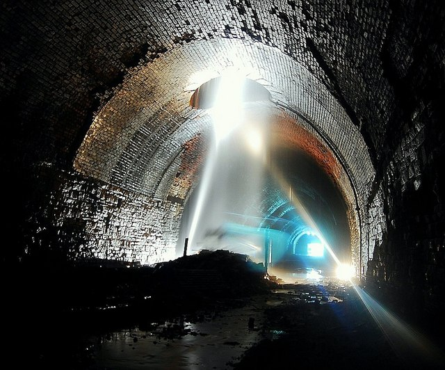 Queensbury tunnel Queensbury tunnel (2501yds) is one of the longest and deepest railway tunnels in England. Queensbury was on the G.N.R line serving the Northern industrial towns of Bradford, Halifax & Keighley. It was built in 1879, passenger services ceased in 1955. A big problem in the tunnel's history was giant icicles forming on cold winter nights, A steam engine used to be parked here overnight to prevent this in later years. The line used to be known as the Alpine route due to its hilly nature. For many more pictures